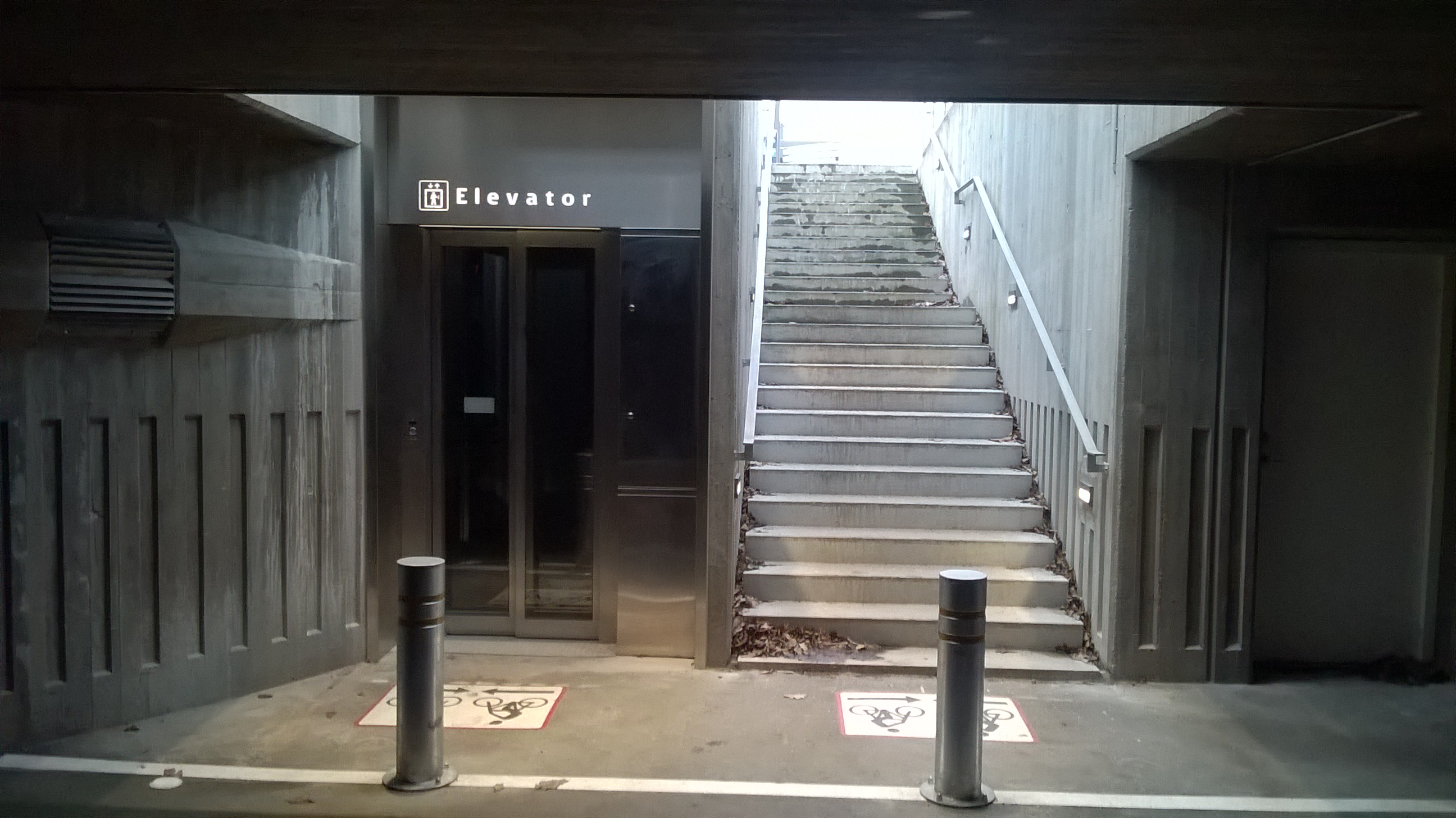 Universitetsparken Station tunnel adgang